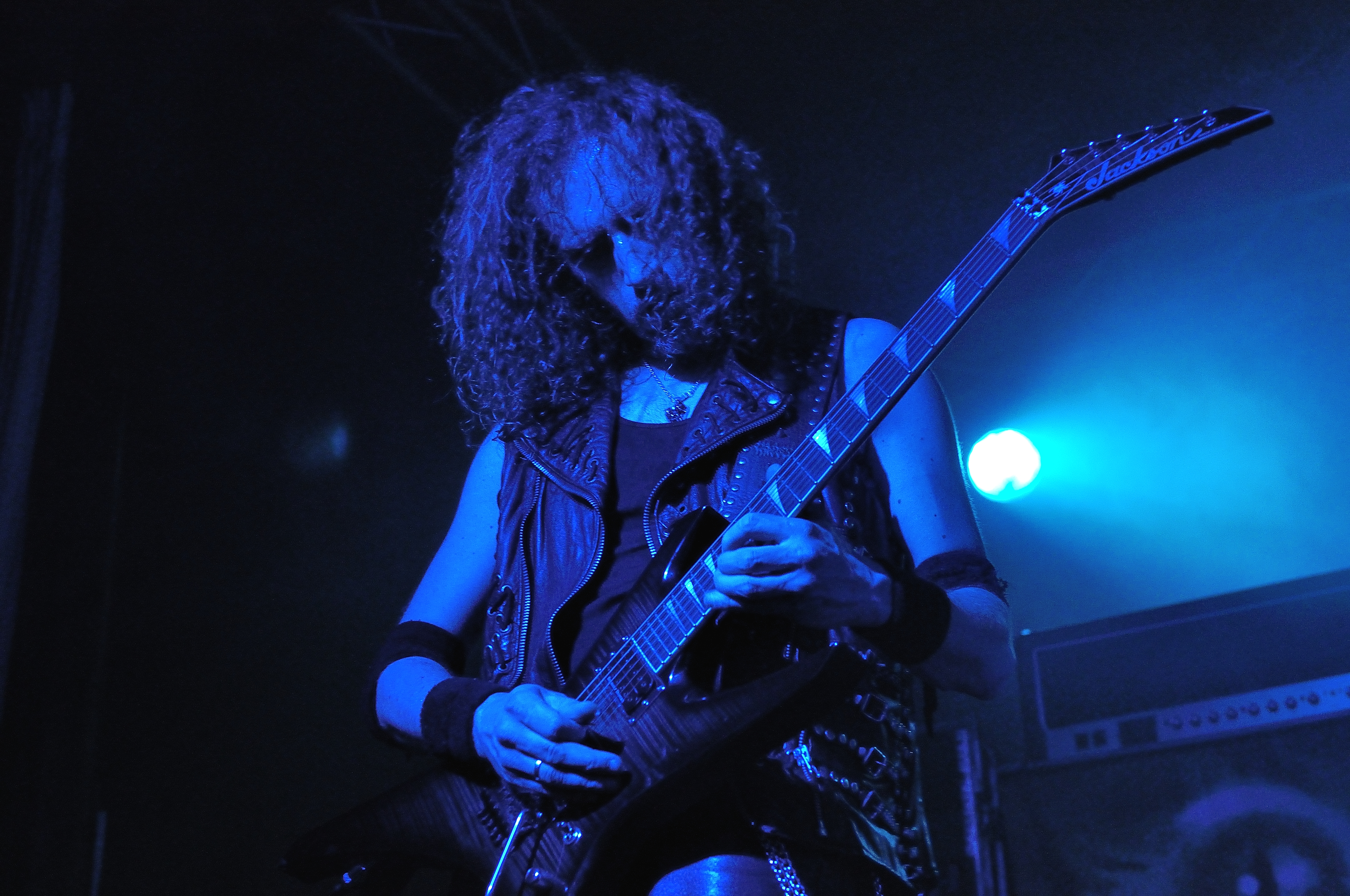 Vader at Hatefest 2015 in Berlin.